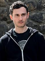 Del amo jean-Baptiste en 2016